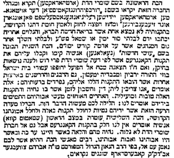 A report in the Hebrew newspaper "HaMagid" from 14 June 1871, about the Schism in Hungarian Jewry.